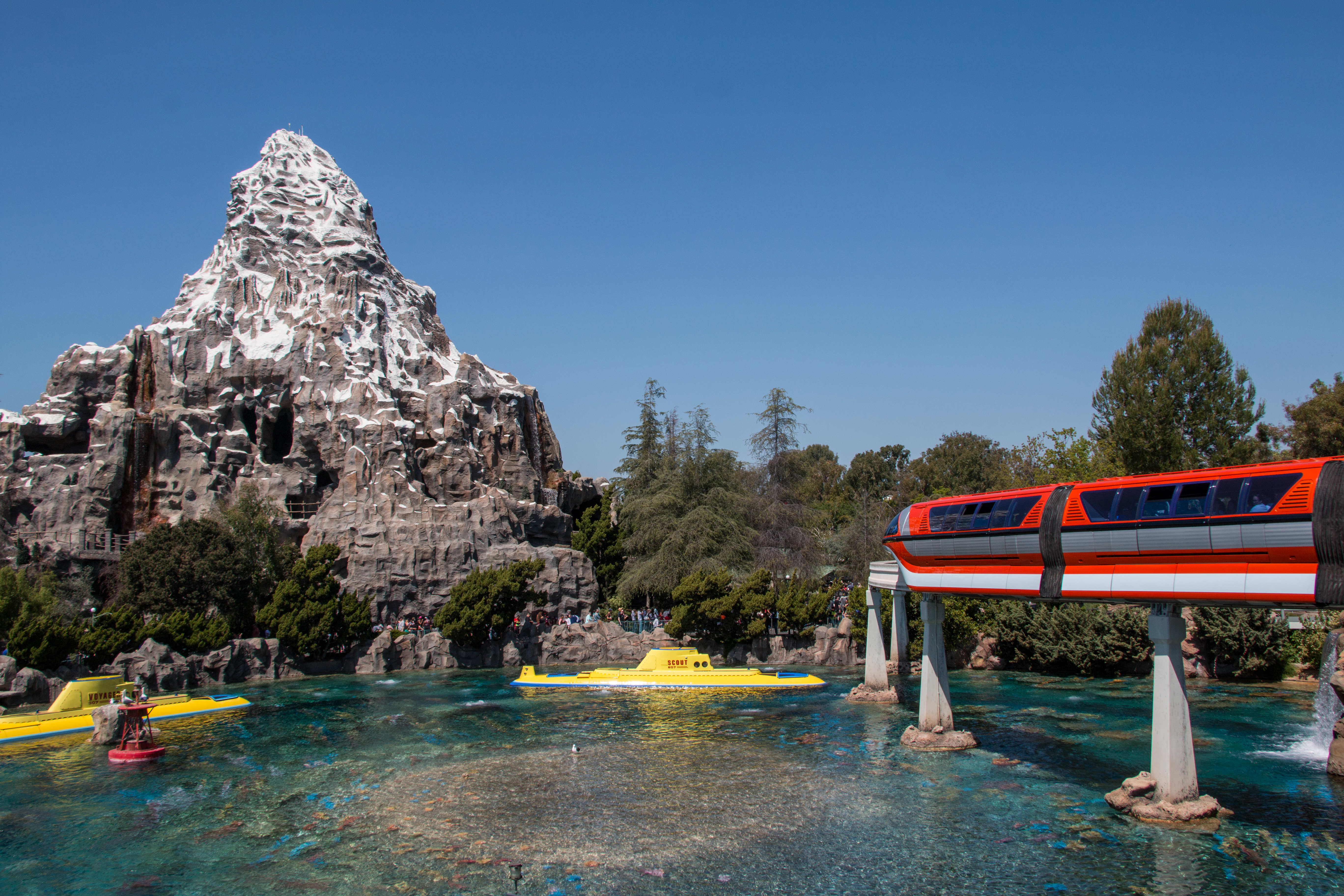 The Matterhorn (plus a passing monorail!) as seen from the Tomorrowland monorail station in Disneyland.